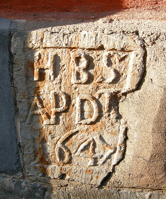 Helge Bertelsen was the first owner of "Magistratgården" in Oslo